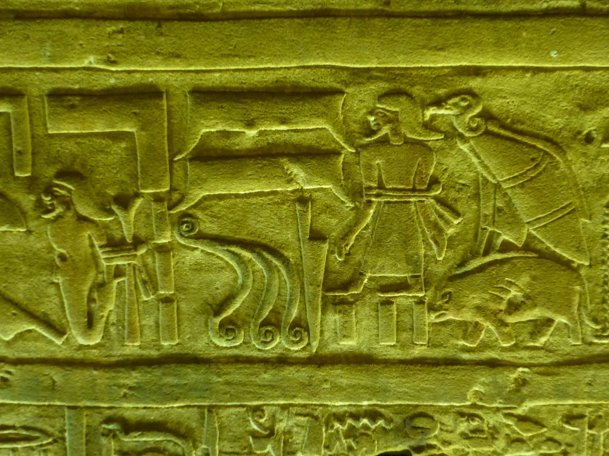 Wall relief of captives in Treasure hall, temple of Edfu, Egypt